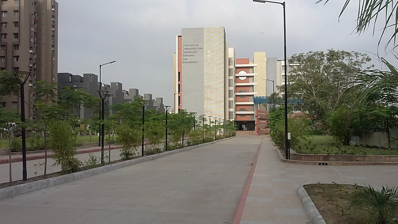 Academic Building